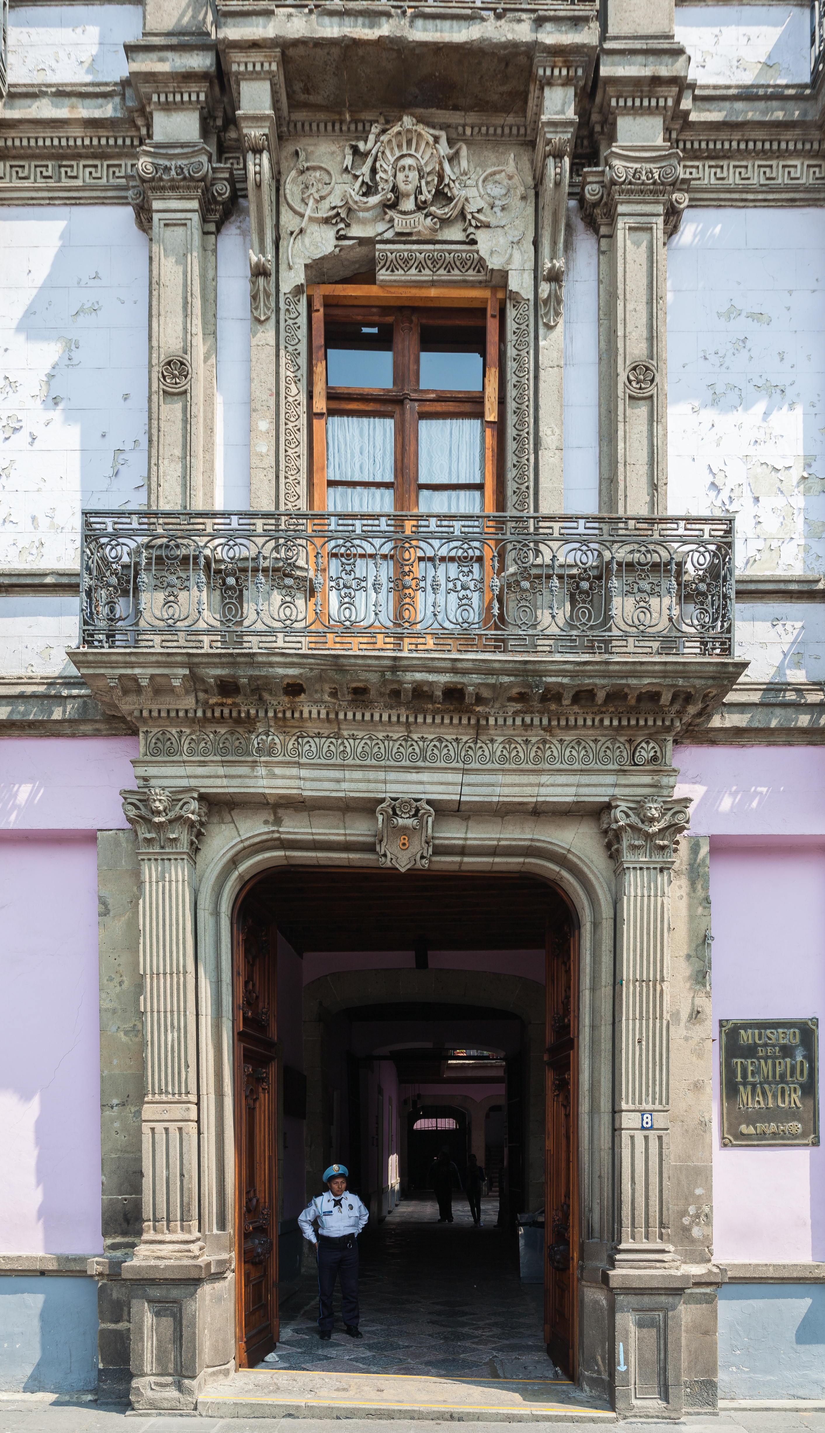 Museo del Templo Mayor, México D.F., México